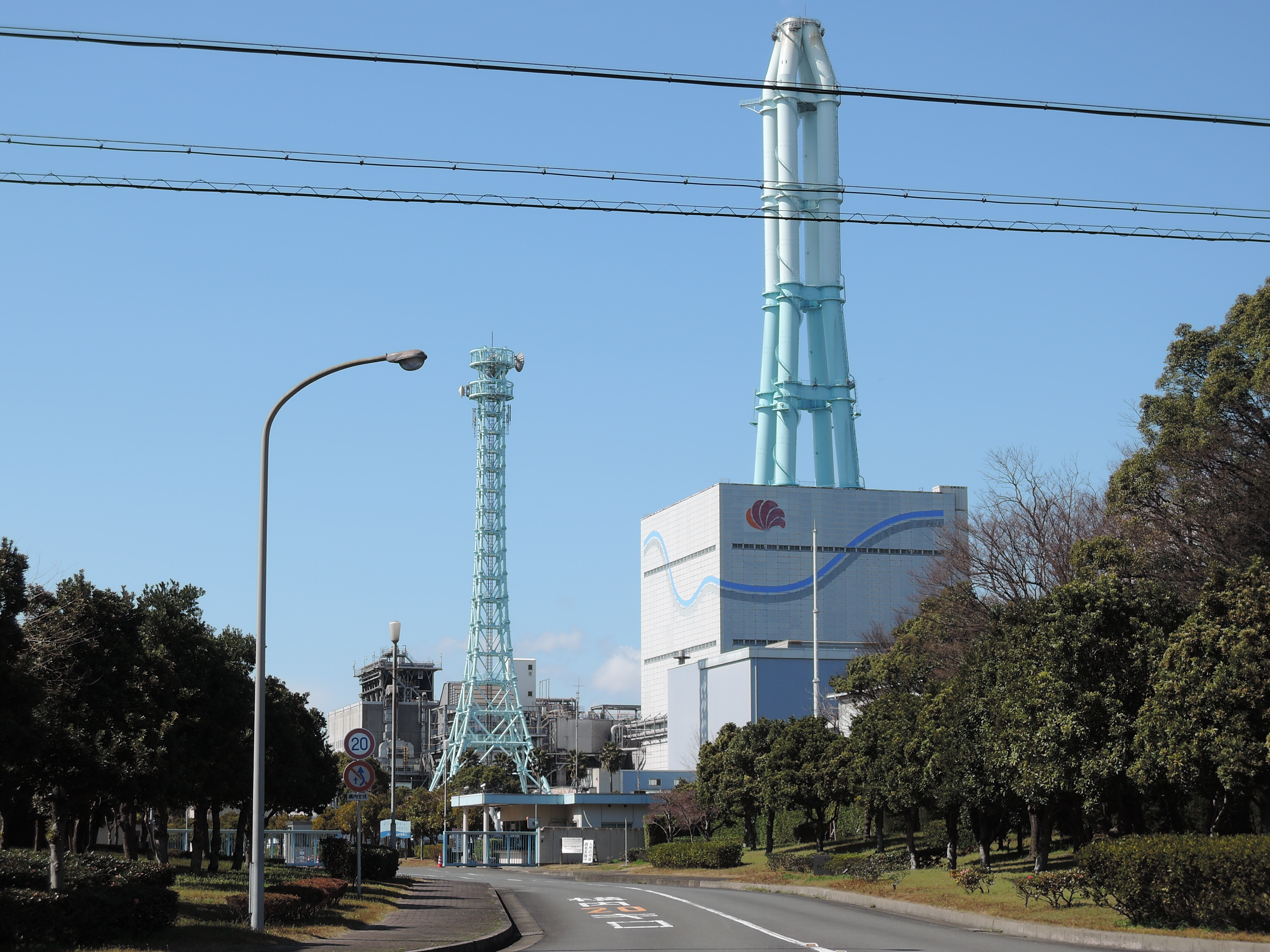 Chita Daini Thermal Power Station ,Aichi prefecture, Japan